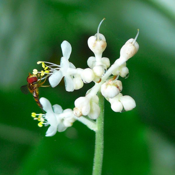 flower, w/Episyrphus balteatus